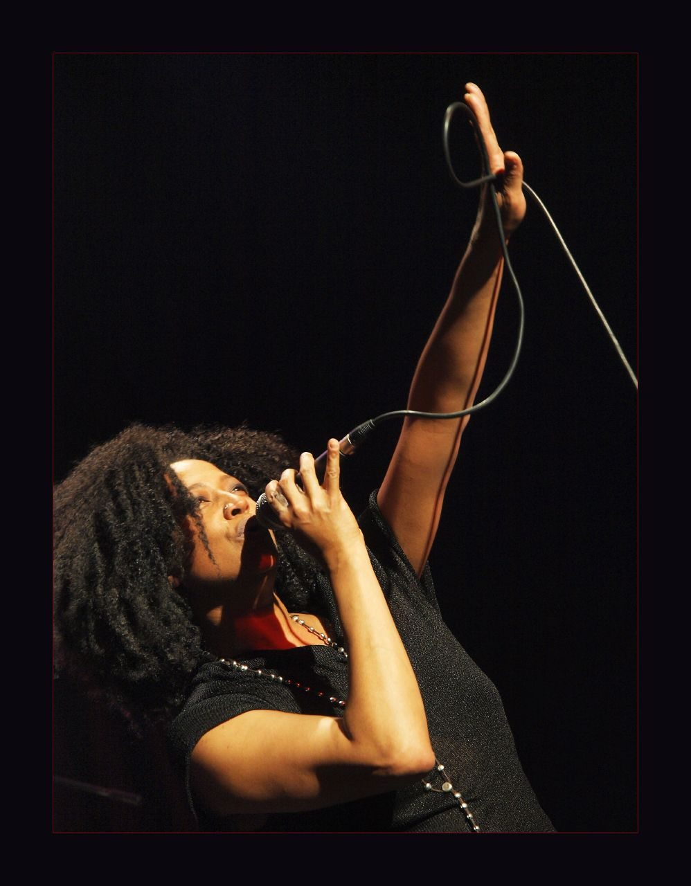 Lisa Fischer vocals, ( The Rolling Stones) Blondie Chaplin, vocals , (The Rolling Stones) Nick Tremulis, vocals, guitar Angus Thomas , bass, (Miles Davis) Larry Beers, drums, (Crash Test Dummies) Geri Schuller, piano Vocalist Lisa Fischer has been a member of the Rolling Stones tours as well as supporting other artists.